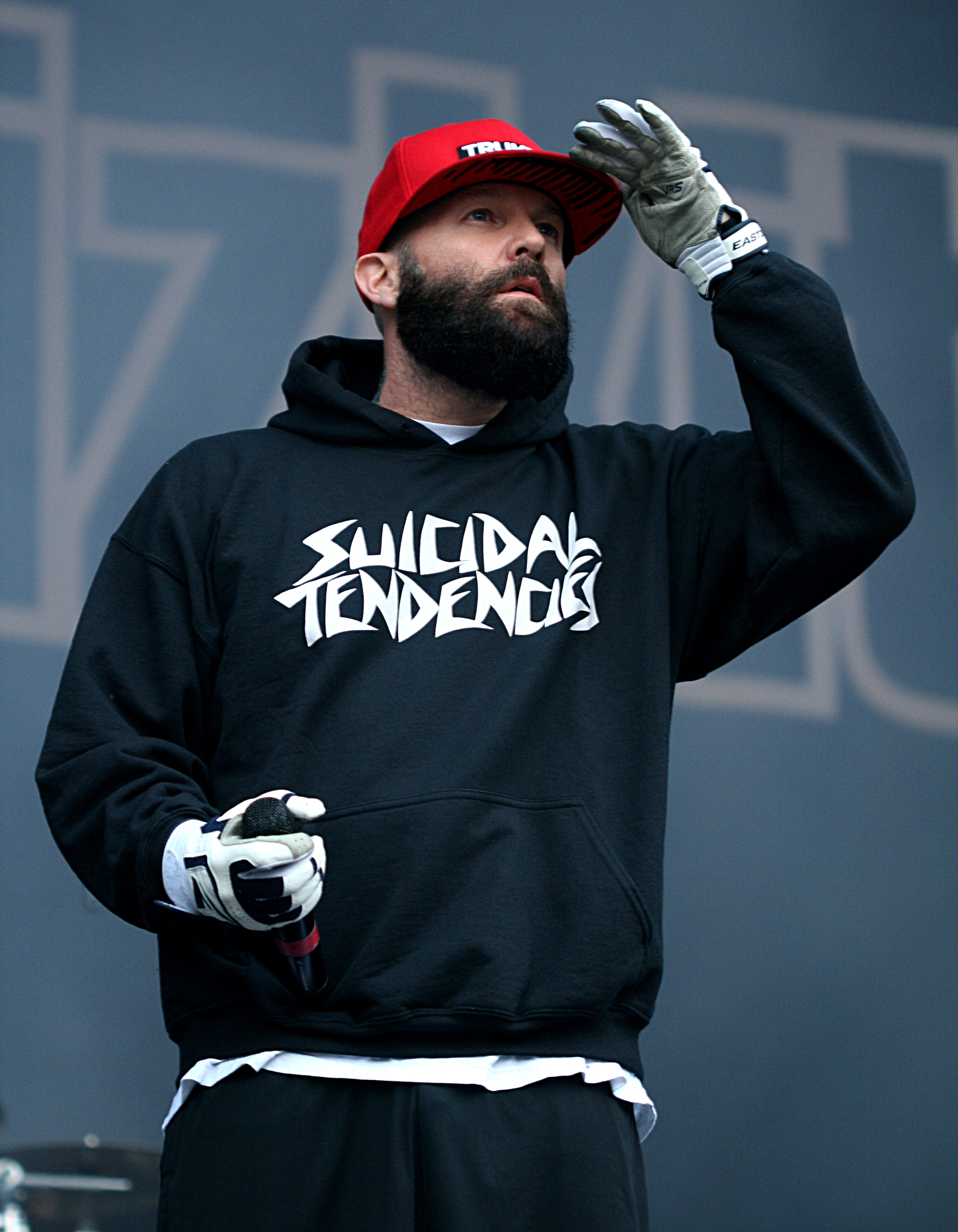 Fred Durst, singer of Limp Bizkit, on the Alterna Stage of Rock im Park-Festival 2013. Festivalsommer This photo was created with the support of donations to Wikimedia Deutschland in the context of the CPB project "Festival Summer".